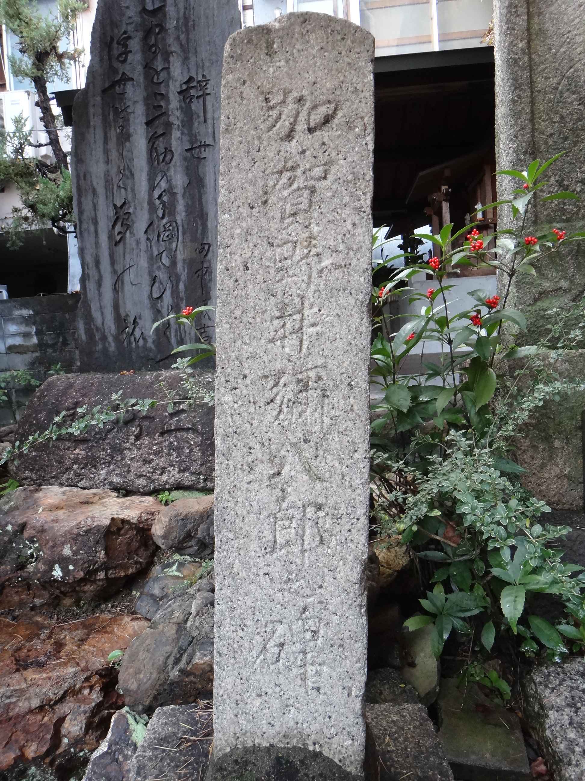 Yahatijizo at Gihu city